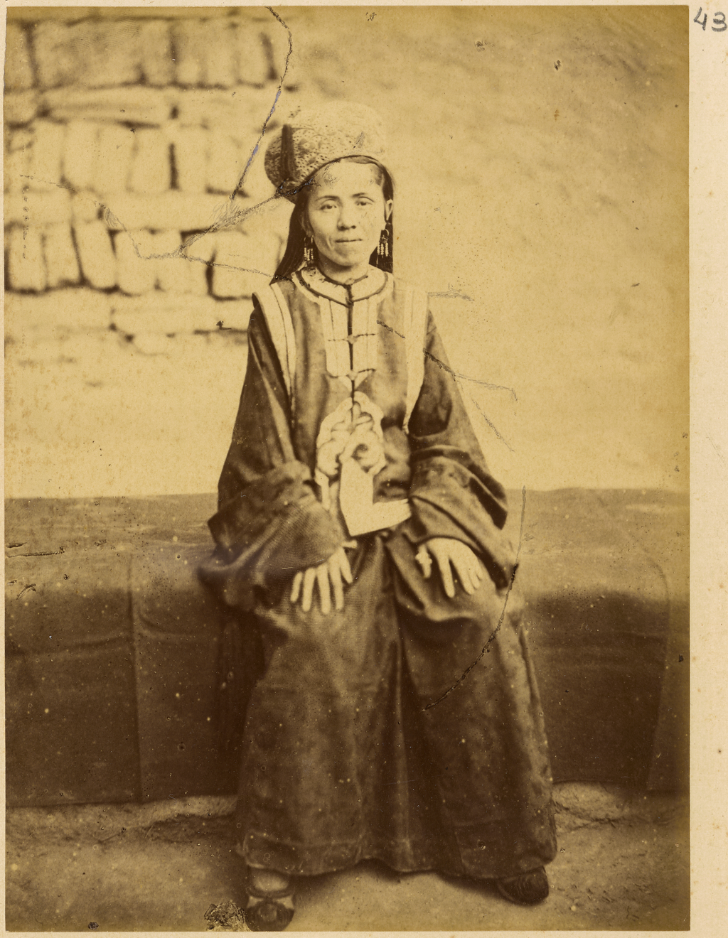 In 1874-75, the Russian government sent a research and trading mission to China to seek out new overland routes to the Chinese market, report on prospects for increased commerce and locations for consulates and factories, and gather information about the Dungan Revolt then raging in parts of western China. Led by Lieutenant Colonel Iulian A. Sosnovskii of the army General Staff, the nine-man mission included a topographer, Captain Matusovskii; a scientific officer, Dr. Pavel Iakovlevich Piasetskii; Chinese and Russian interpreters; three non-commissioned Cossack soldiers; and the mission photographer, Adolf Erazmovich Boiarskii. The mission proceeded from Saint Petersburg to Shanghai via Ulan Bator (Mongolia), Beijing, and Tianjin, and then followed a route along the Yangtze River, along the Great Silk Road through the Hami oasis, to Lake Zaysan, back to Russia. Boiarskii took some 200 photographs, which constitute a unique resource for the study of China in this period. Most of the photographs are included in this album, which later became part of the Thereza Christina Maria Collection assembled by Emperor Pedro II of Brazil and given by him to the National Library of Brazil. Memory of the World; Muslim women; Portrait photographs